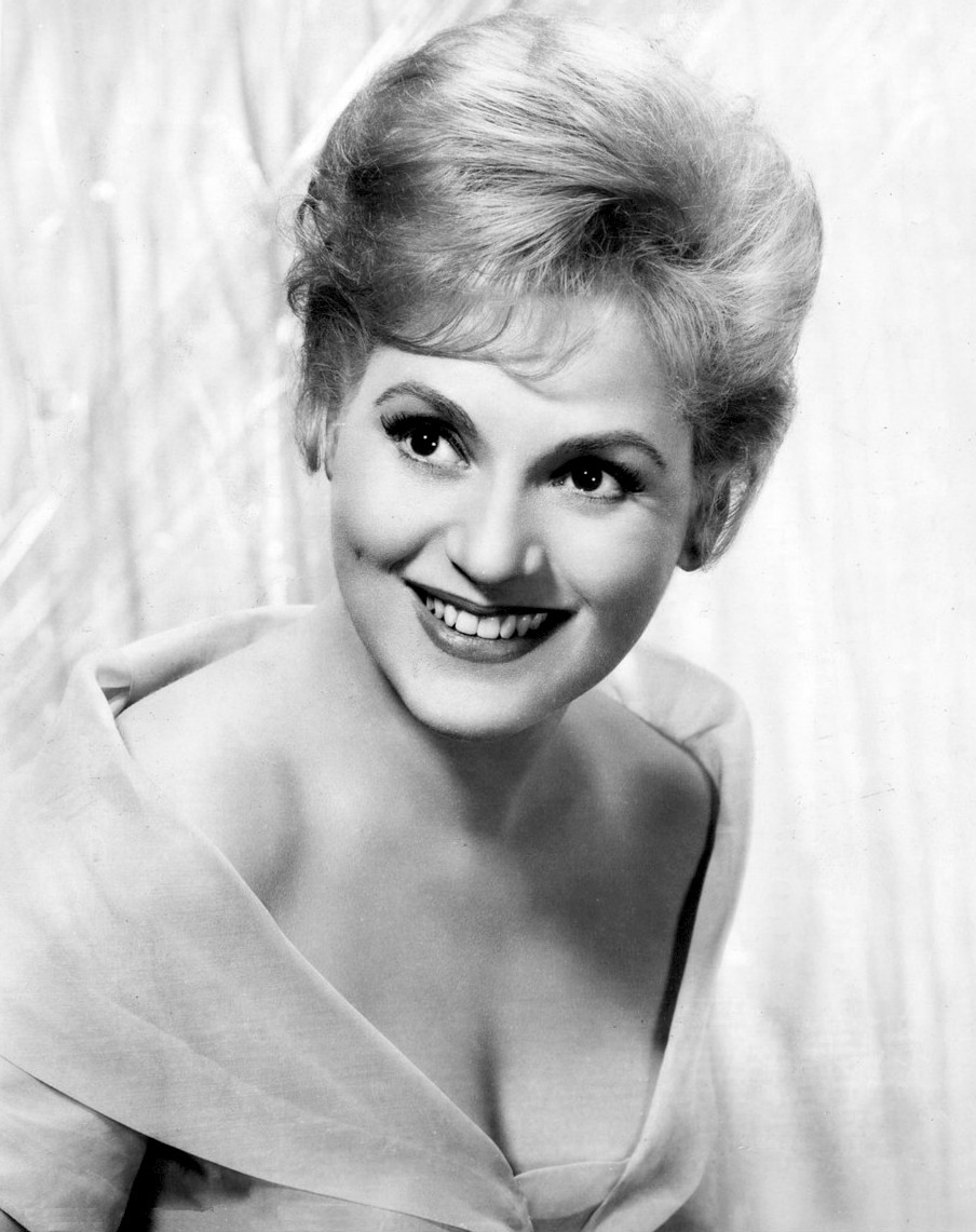 Photo of Judy Holliday. The item has no copyright markings on it as can be seen in the links above.